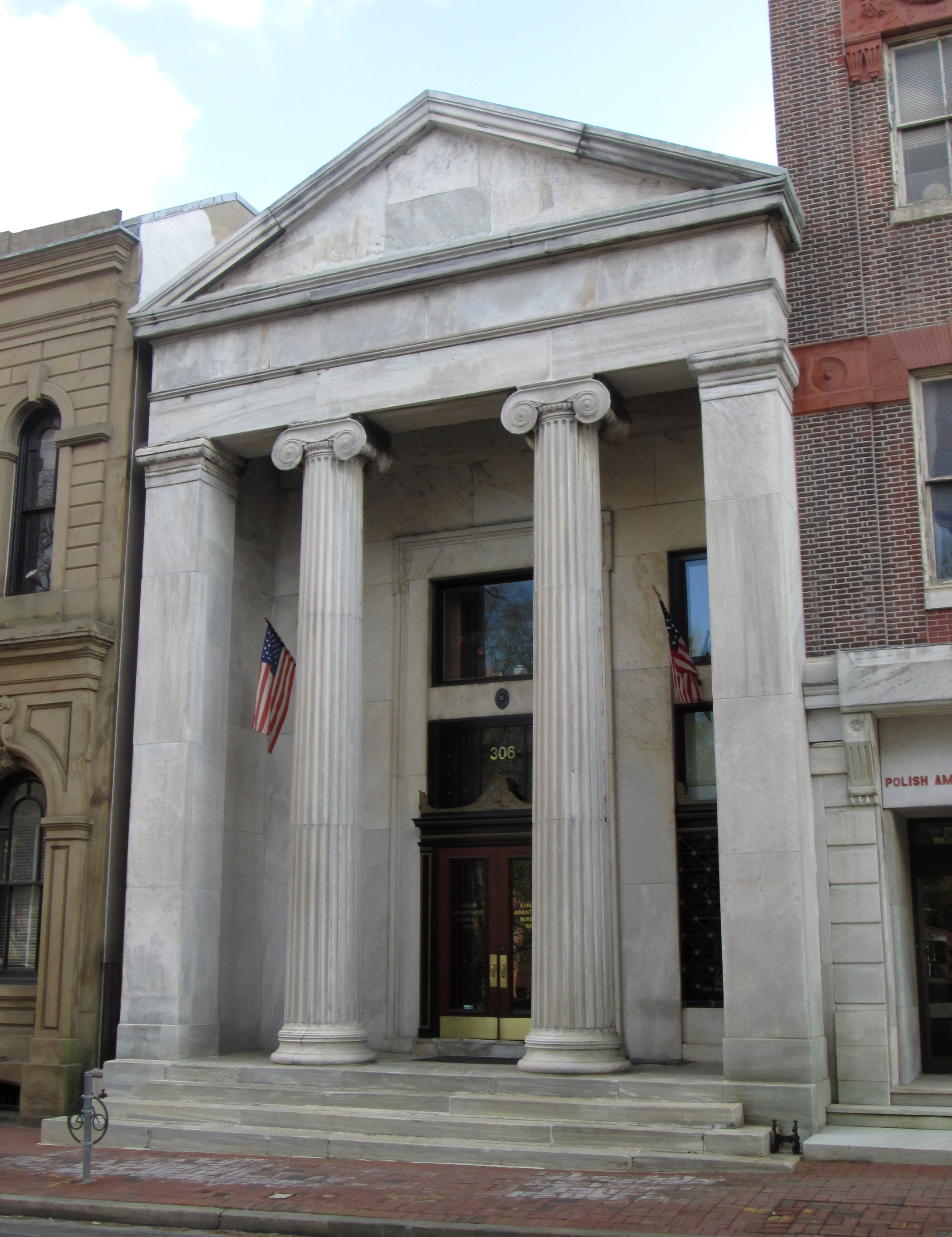 The Philadelphia Savings Fund Society was a savings bank headquartered in Philadelphia, Pennsylvania, founded in 1816, the first savings bank to organize and do business in the United States. The Society went through a number of headquarters locations until 1840 when a new building designed by Thomas U. Walter in the Greek Revival style was opened at 306 Walnut Street between S. 3rd and S. 4th Streets in the Society Hill neighborhood.Then, in 1868-9, a new Italianate-style headquarters building designed by Addison Hutton of Sloan & Hutton was completed at 700-710 Walnut Street at West Washington Square. Hutton received the commission by winning a design contest, and the resulting building established his career. Additions to the building were later made in 1885-86, 1897-98 and 1930. The 1883 addition, half of the center pavilion, was designed by Hutton; the 1897 addition, the other half of the center pavilion and the west pavilion, was designed by Frank Furness of Furness, Evans & Company; the 1929-31 addition, alterations and vault rooms, was designed by Loew & Lescaze. (Sources: Philadelphia Architecture: A Guide to the City (2nd ed.), Architecture in Philadelphia: A Guide and "Washington Square" on )